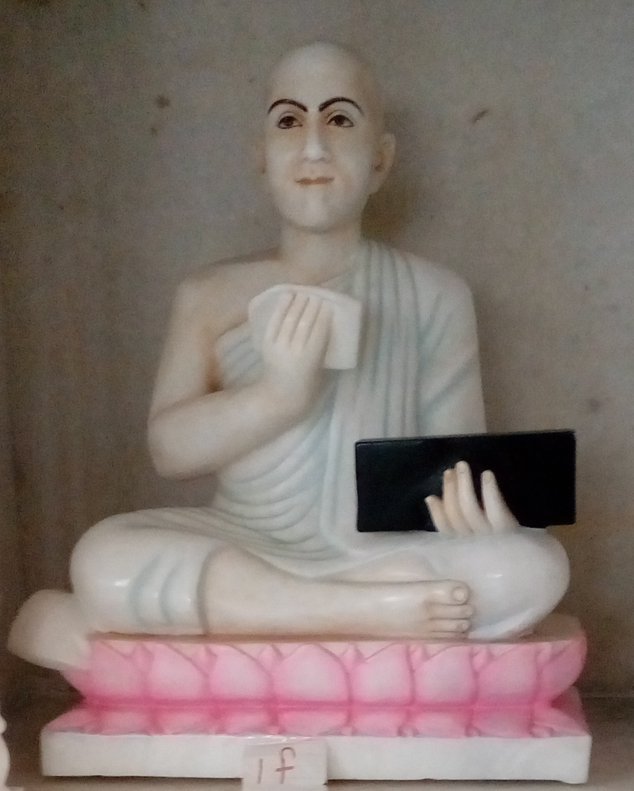 Yashovijaya, a seventeenth-century Jain philosopher-monk, was a notable Indian philosopher and logician. Idol in library of Lodhadham near Mumbai, Maharashtra.